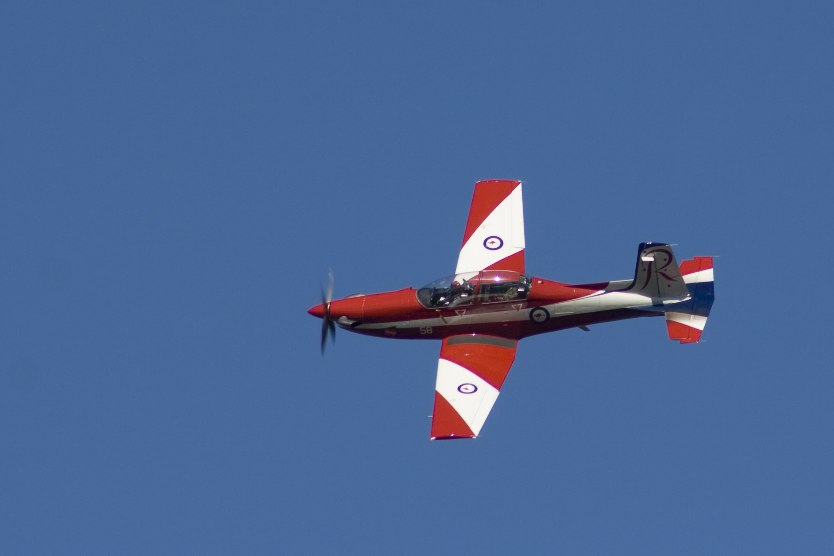 Pilatus PC-9A C/N 560 at Illawarra Regional Airport, May 2012.